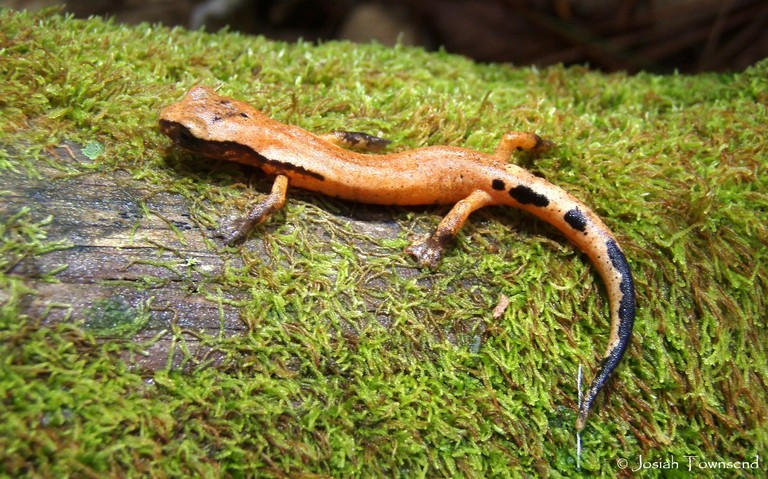 Bolitoglossa oresbia